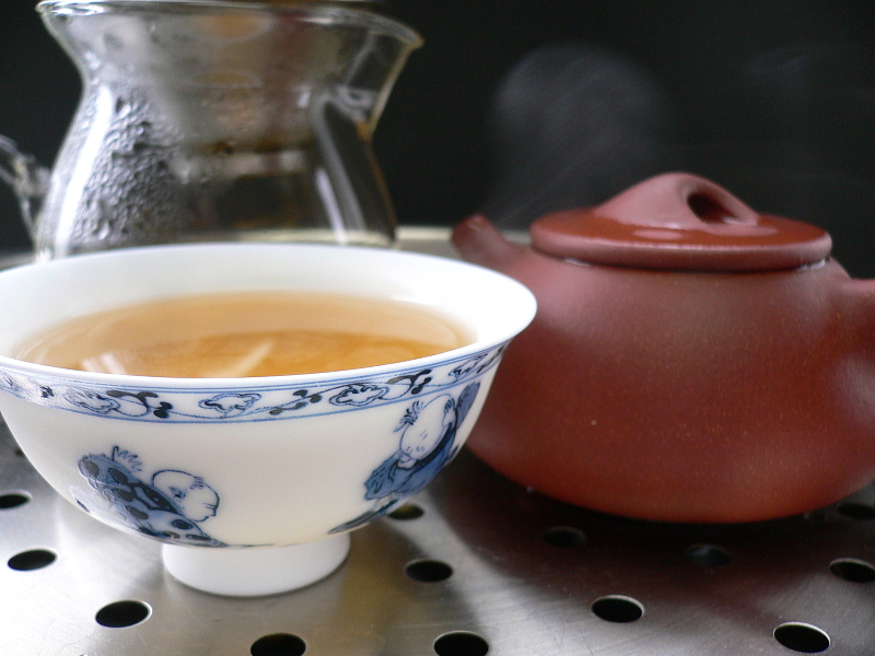 chinese tea